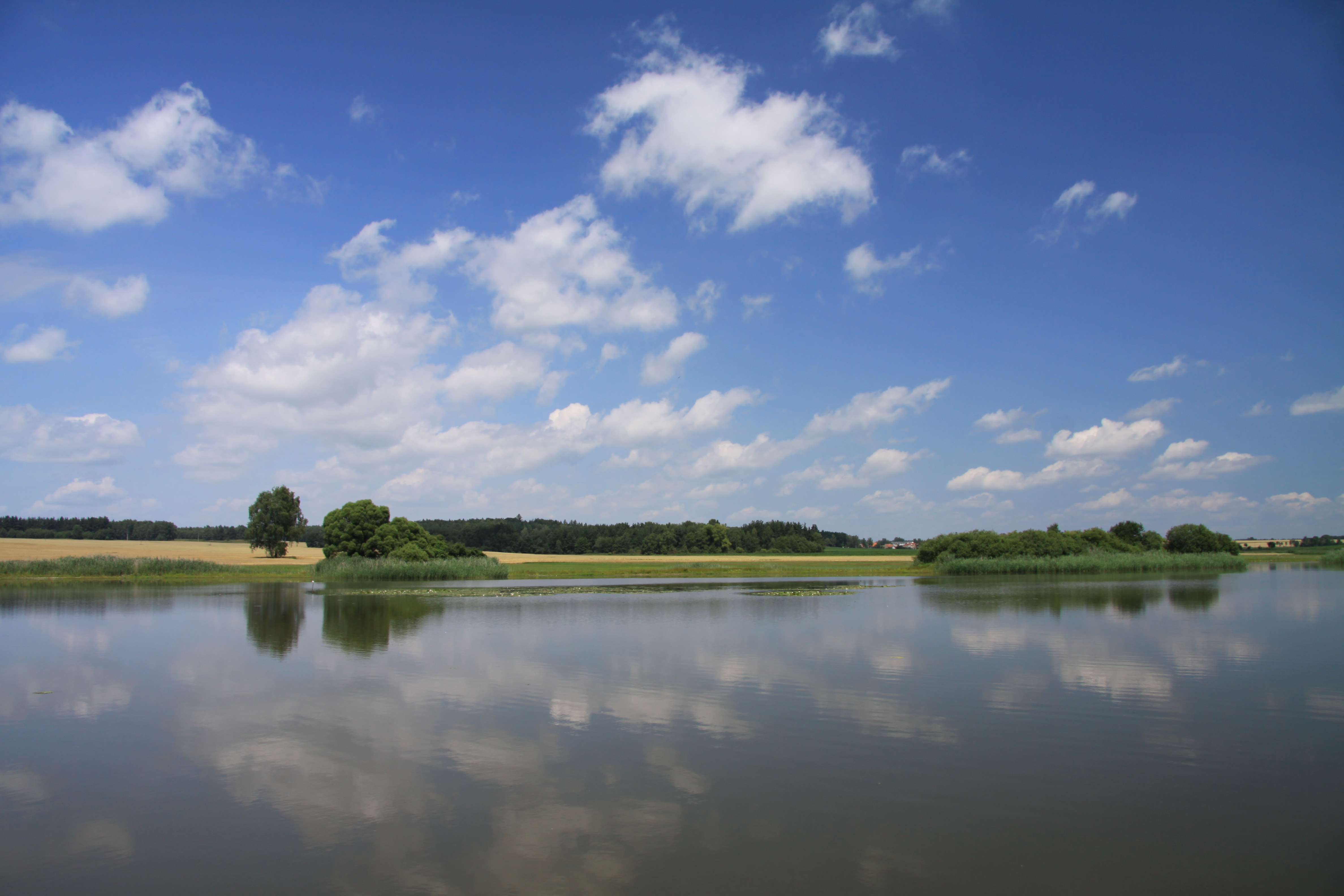 Natural monument Farářský rybník near Drahov village, Tábor District, Czech Republic - Google Maps - Google Earth